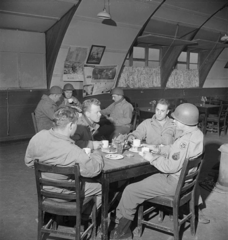 Naafi Canteens Cater For US Troops- the work of the Navy, Army and Air Force Institutes, England, UK, 1943 Enjoying tea, cakes and a chat at a NAAFI somewhere in England are T/S John Wojciechowski (of 11 Vernon Street, Patchogue, New York), Private William Lewis (of 1530 North Carlyle Street, Tyler, Texas), Private Charles Esposito (of 422 Sheridan Street, Johnstown, Pennsylvania) and Corporal Jake Groner (of Box 2625 17th Street, North Sacramento, California). Corporal Groner is smoking a cigar.